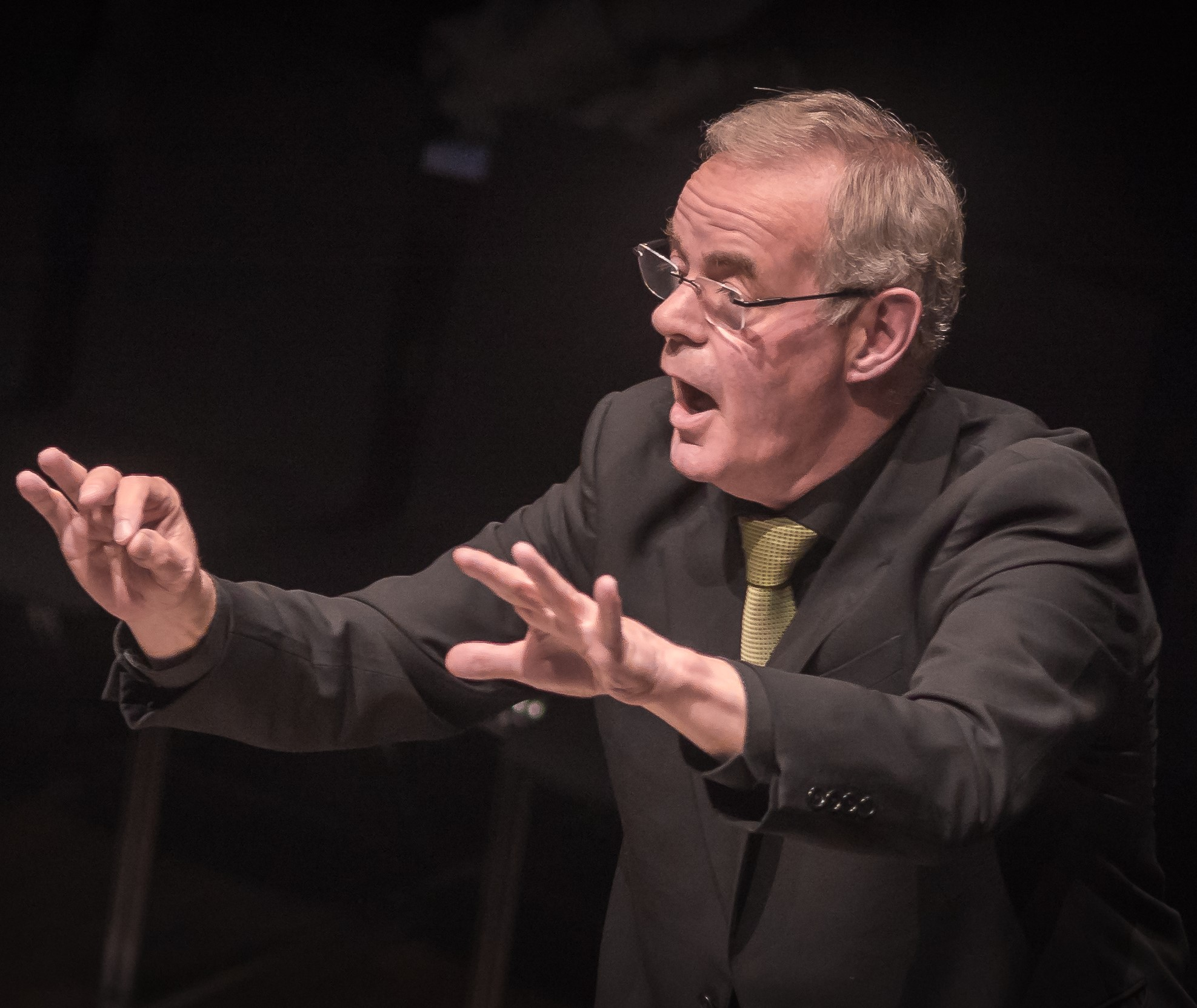 Conductor of SWR Vokalensemble, Donaueschingen, Germany